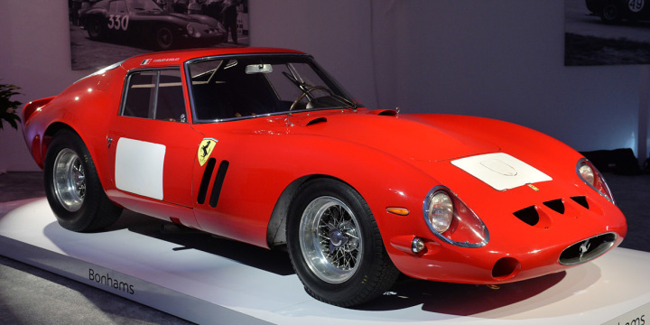 1962 Ferrari 250 GTO chassis 3851GT. Photographed at Bonhams' August 2014 Quail Lodge auction in Carmel, California, USA